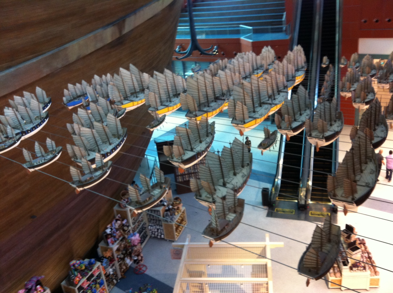 Models of ships commanded by Chinese admiral Zheng He in the Maritime Experiential Museum & Aquarium, Resorts World Sentosa, Singapore.